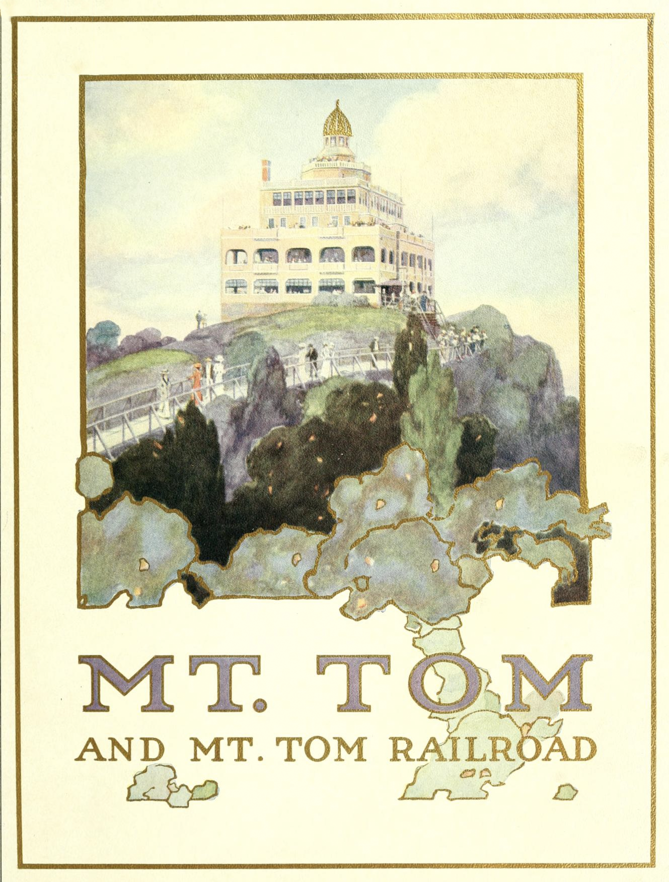 Painting of the second Mount Tom Summit House, of Holyoke, Massachusetts, designed by architect James A. Clough